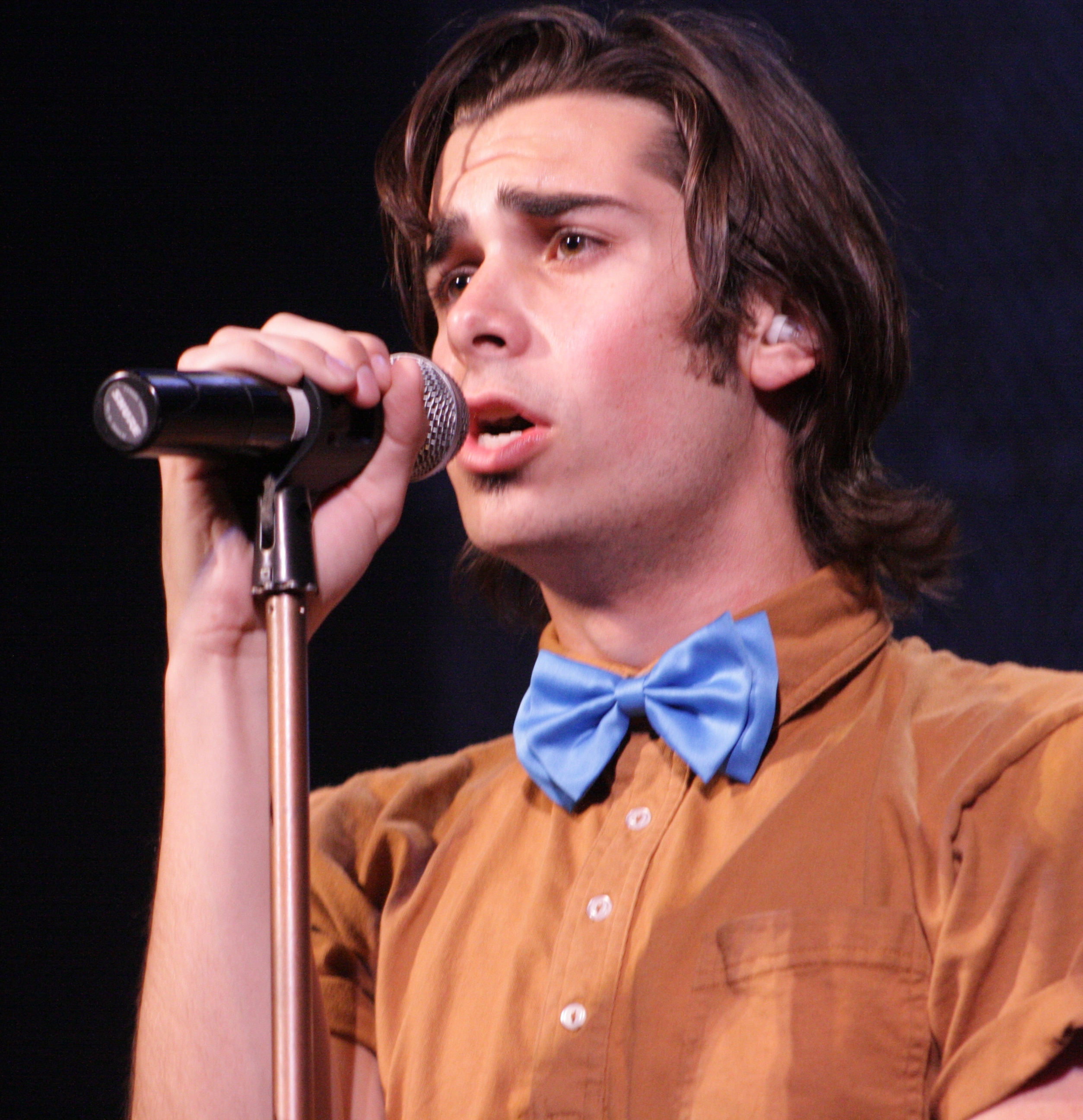 Photograph depicting Joey Richter performing in the Apocalyptour concert by StarKid Productions - at Michigan Theater, Ann Arbor, MI.Depicted person: Joey Richter